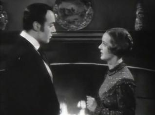 Cropped screenshot of Charles Boyer and Bette Davis from the trailer for the film All This, and Heaven Too.